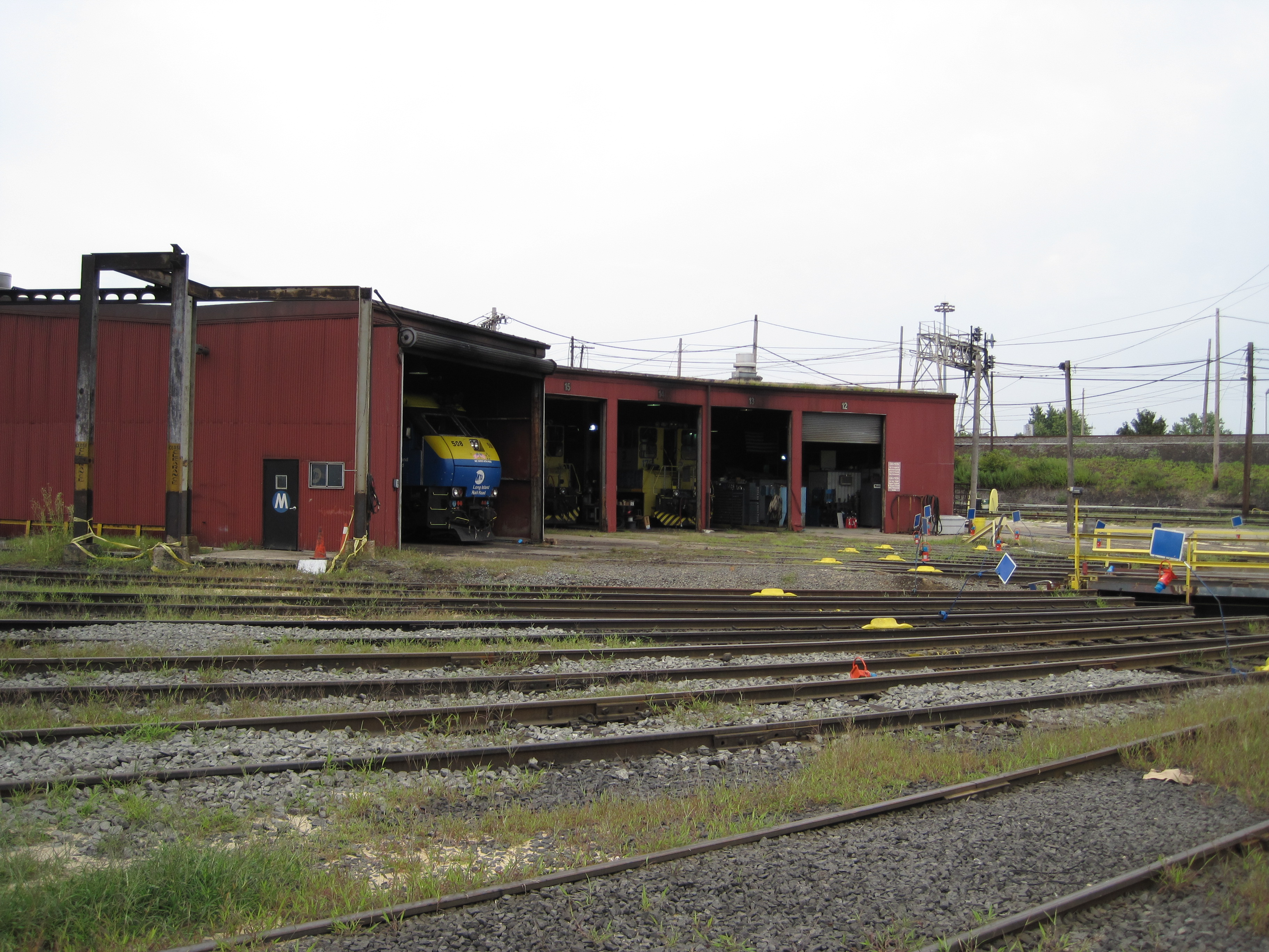 The roundhouse at Morris Park. Engines visible include DM30AC #506 and 2 MP15AC's.